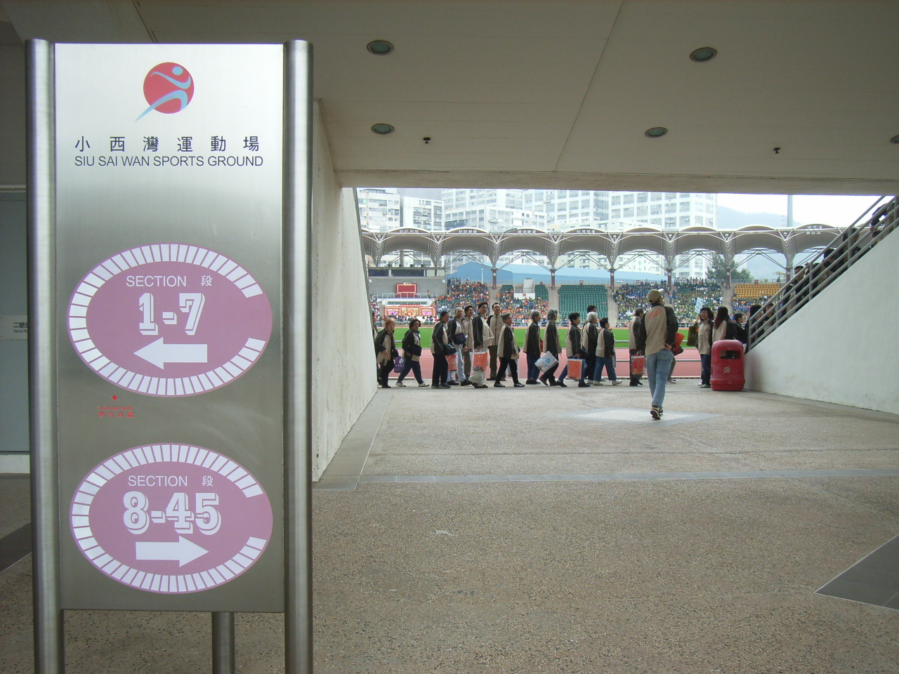 小西灣運動場, Siu Sai Wan Sports Ground Author= User:BLUEAST